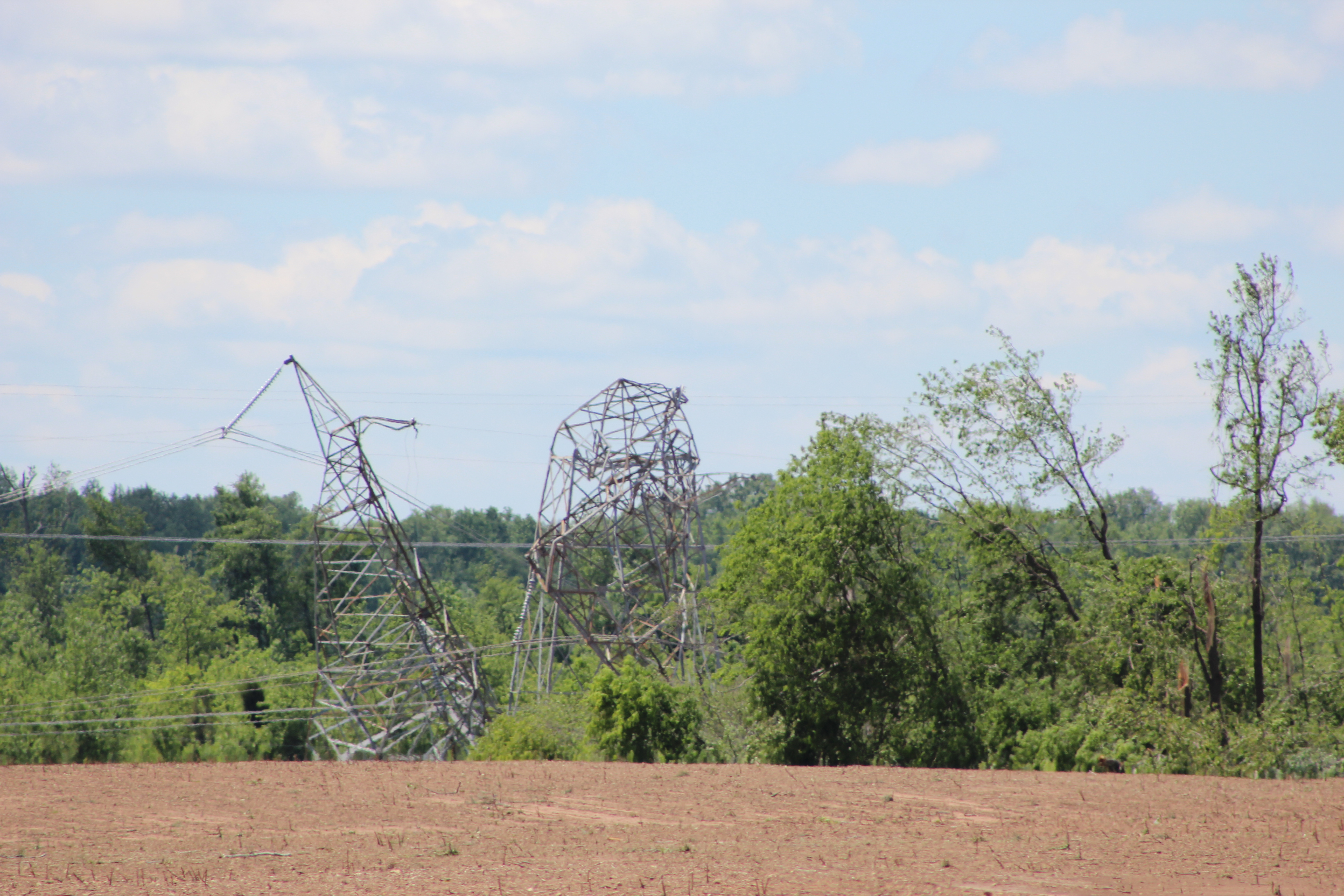 Downed power line towers after the tornado (April 27, 2011) in the vicinity of Browns Ferry Nuclear Power Plant, Alabama